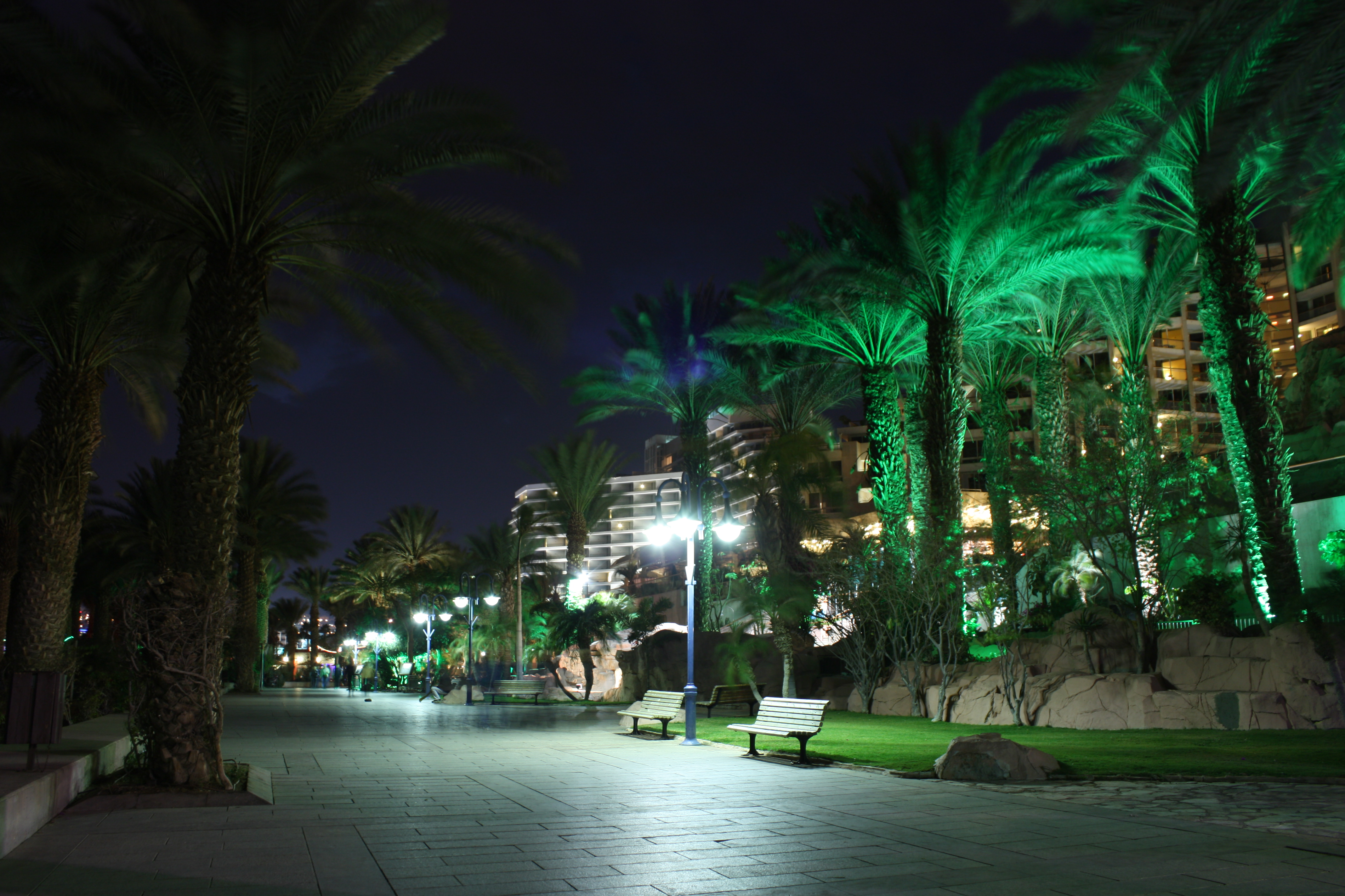 Eilat Promenande